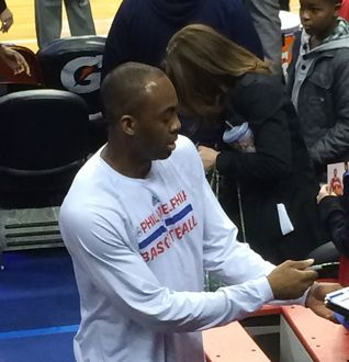 Photo of James Anderson at Sixers practice